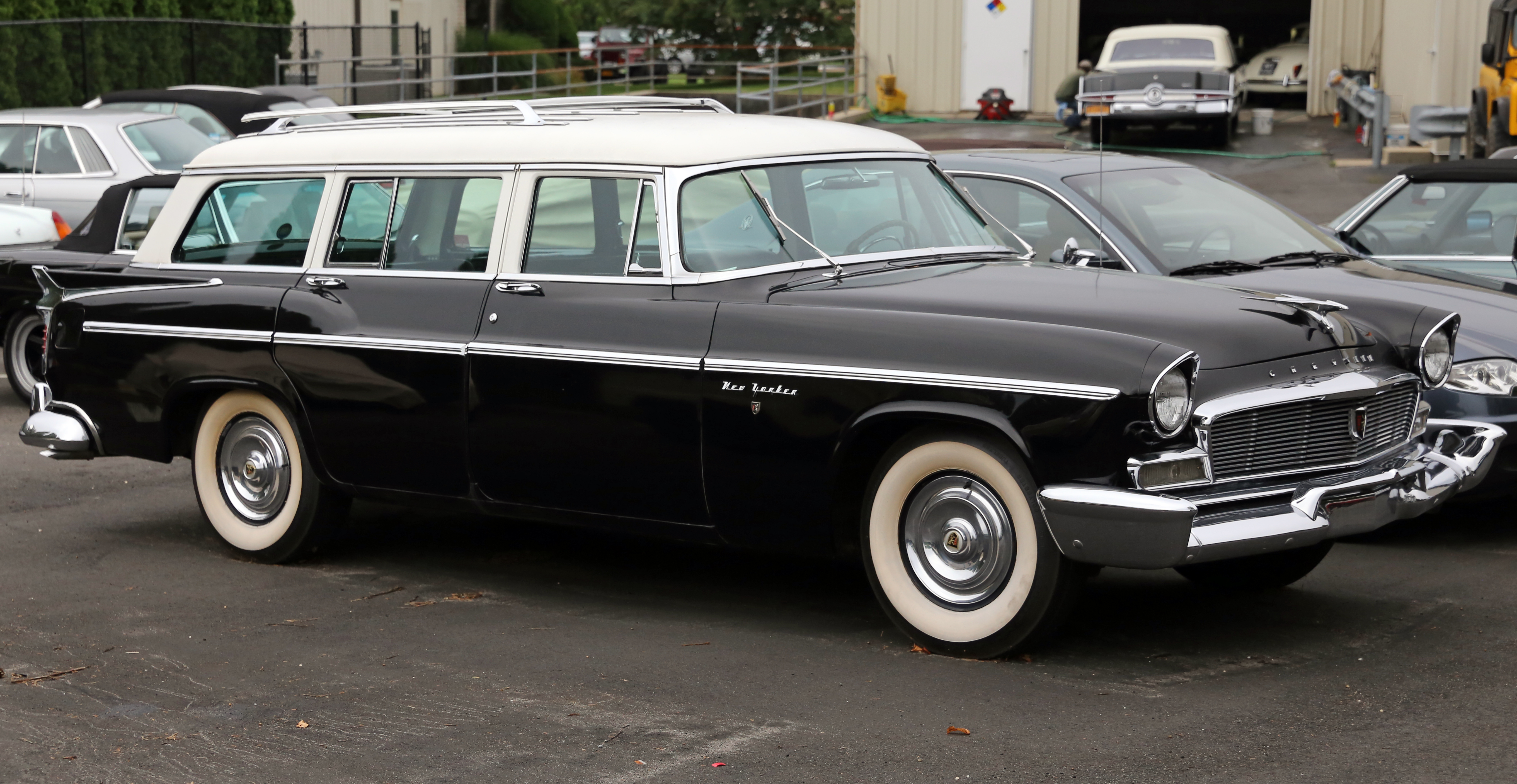 A 1956 Chrysler New Yorker Town & Country station wagon in a lovely white over black two-tone paintjob. Fitted with a 280hp 354ci V8 engine, a mere 1070 New Yorker T&Cs were built in 1956. An early car, built in Chrysler's Detroit plant.